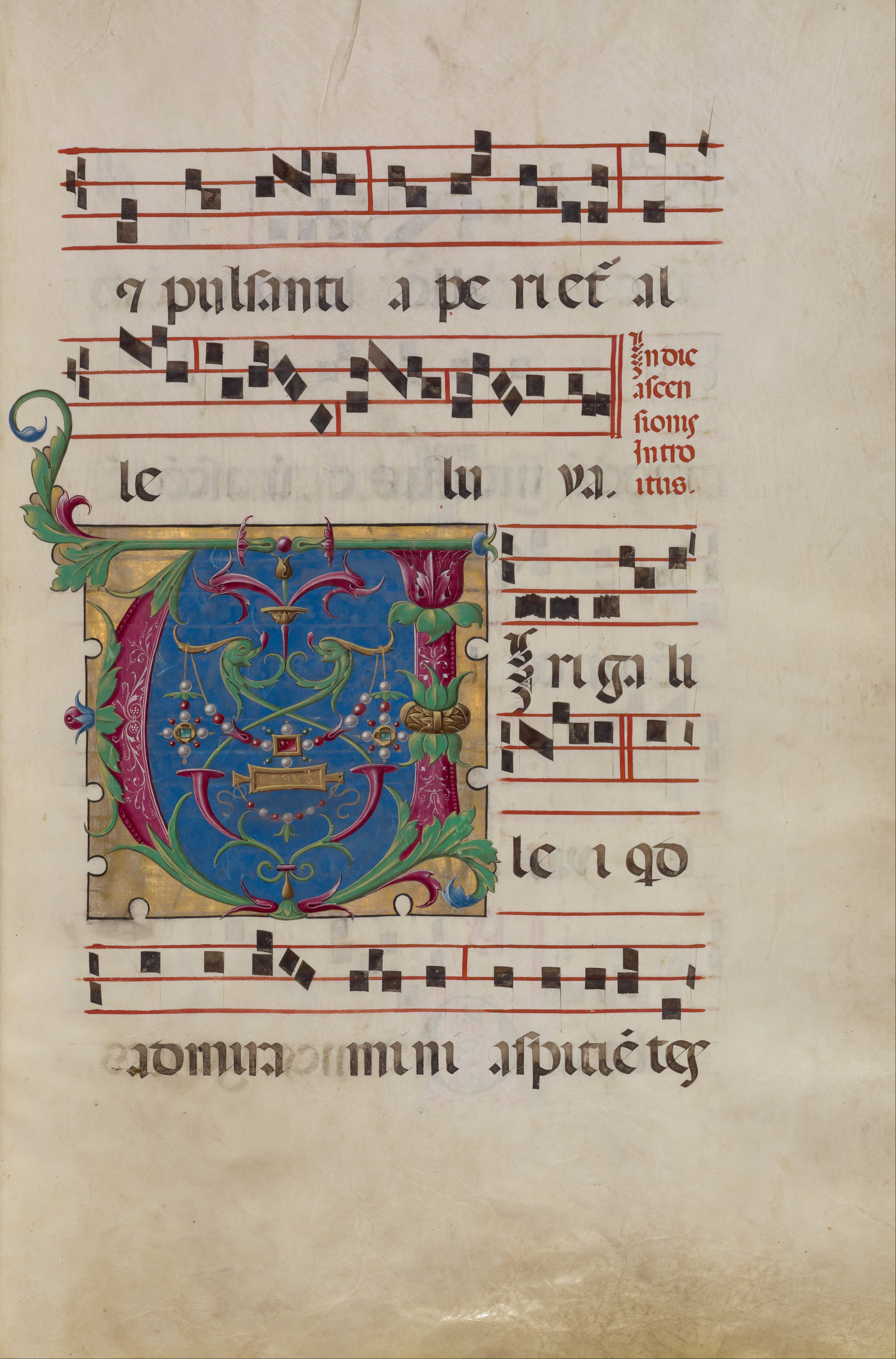 A decorated initial V opens the introit for Ascension day, Viri galilei quid admiramini aspitie[n]tes (Men of Galilee, why are you astonished gazing up?). Set apart from the rest of the text by its large size, color, and all'antica handling, the initial is particularly elegant. A variety of forms from antiquity-vine leaves, wreaths, decorative arabesques, and gems-sprout from the letter's armature. A scribe wrote the music in square notation, a system developed in the Middle Ages and still used today. Text: Introitus (Gesang)7Introit of the feast Christi Himmelfahrt/Feast of the Ascension